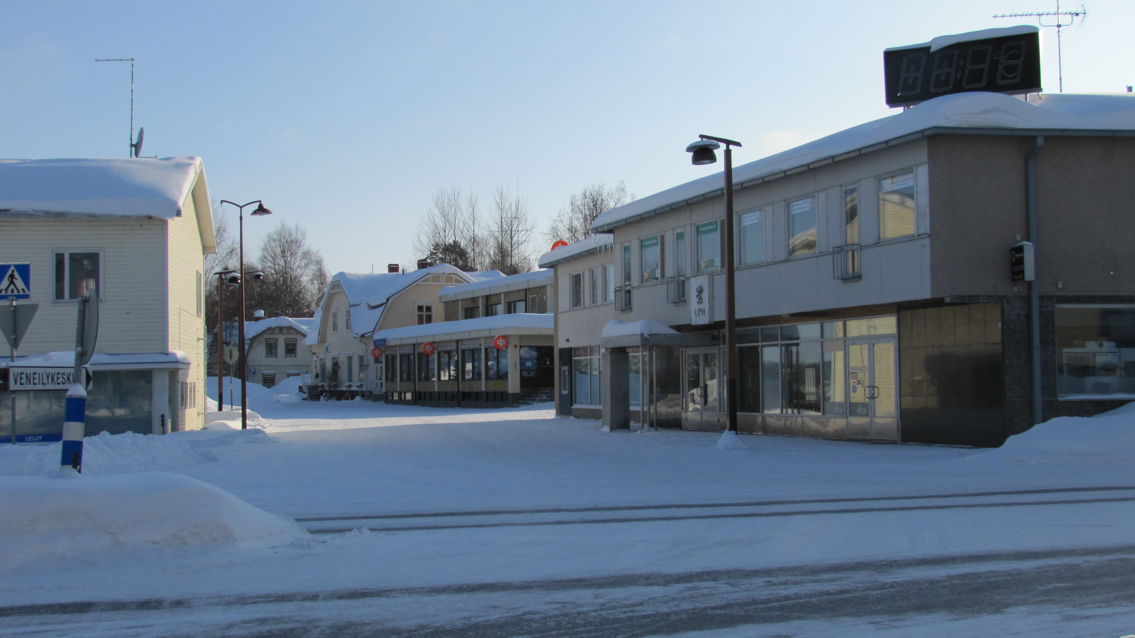 Alanteentie in the centre of Sulkava, Finland